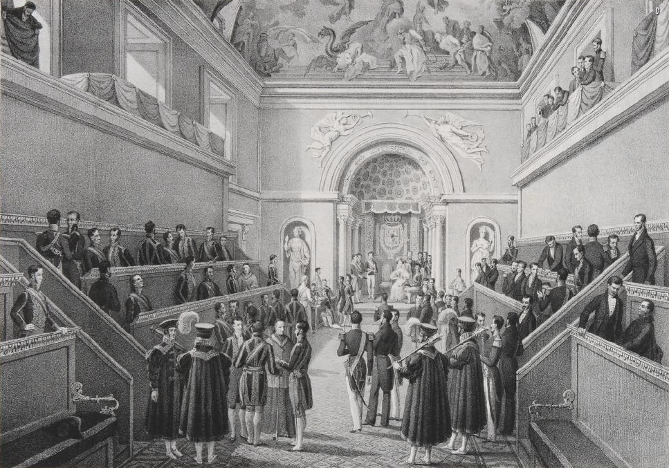 Queen Regent Maria Cristina presides over the State opening of Parliament of 1834, in the Chamber of Peers